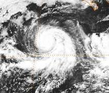 Hurricane Hernan near peak strength on 1990-07-23